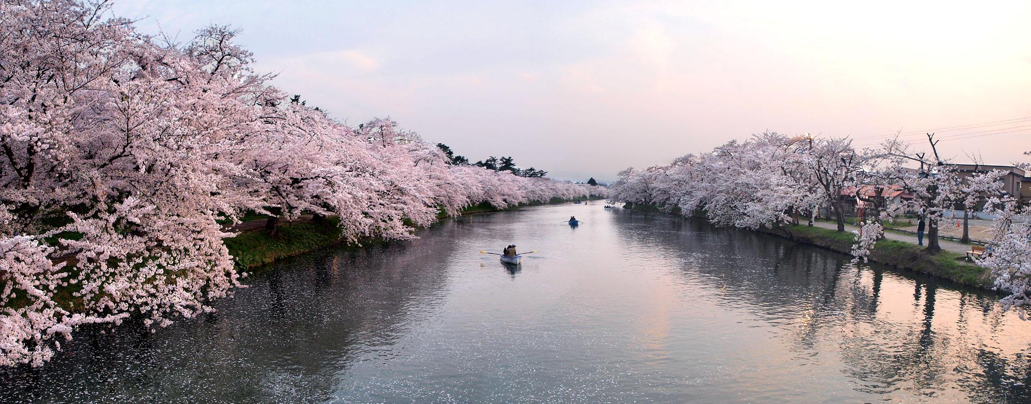 Hirosaki castle nishibori